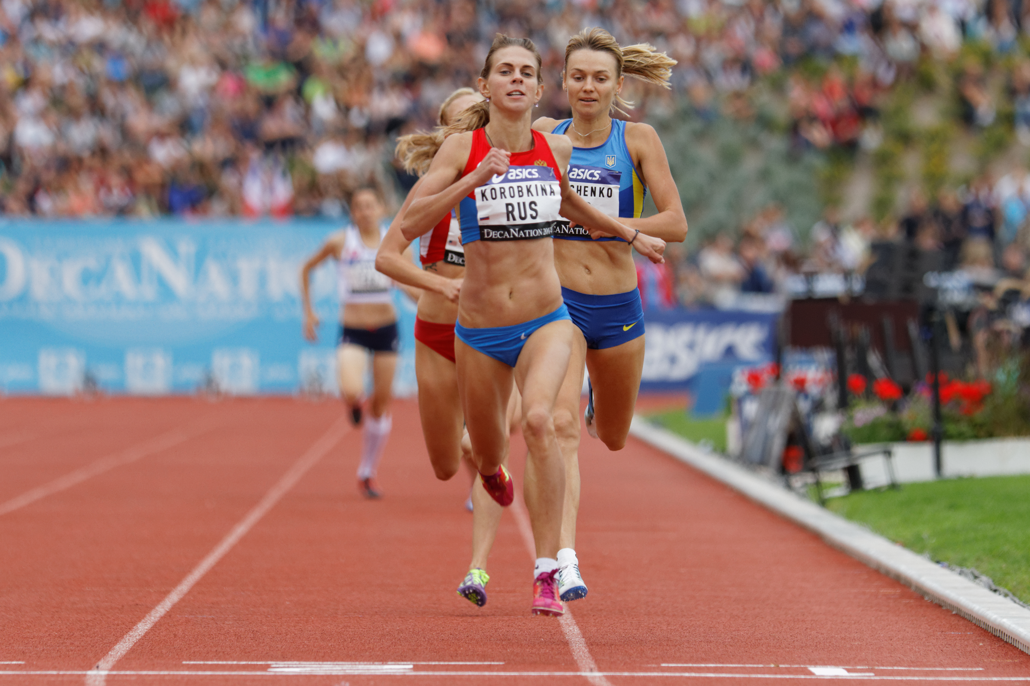 DécaNation 2014. 1500m.